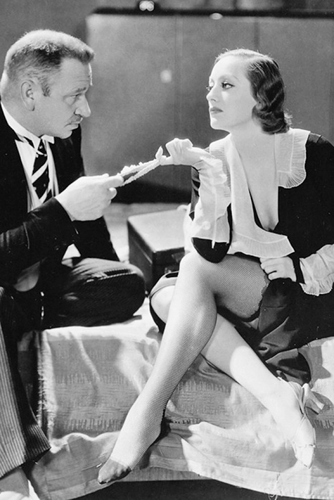 Promotional photograph for the film Grand Hotel starring Wallace Beery and Joan Crawford